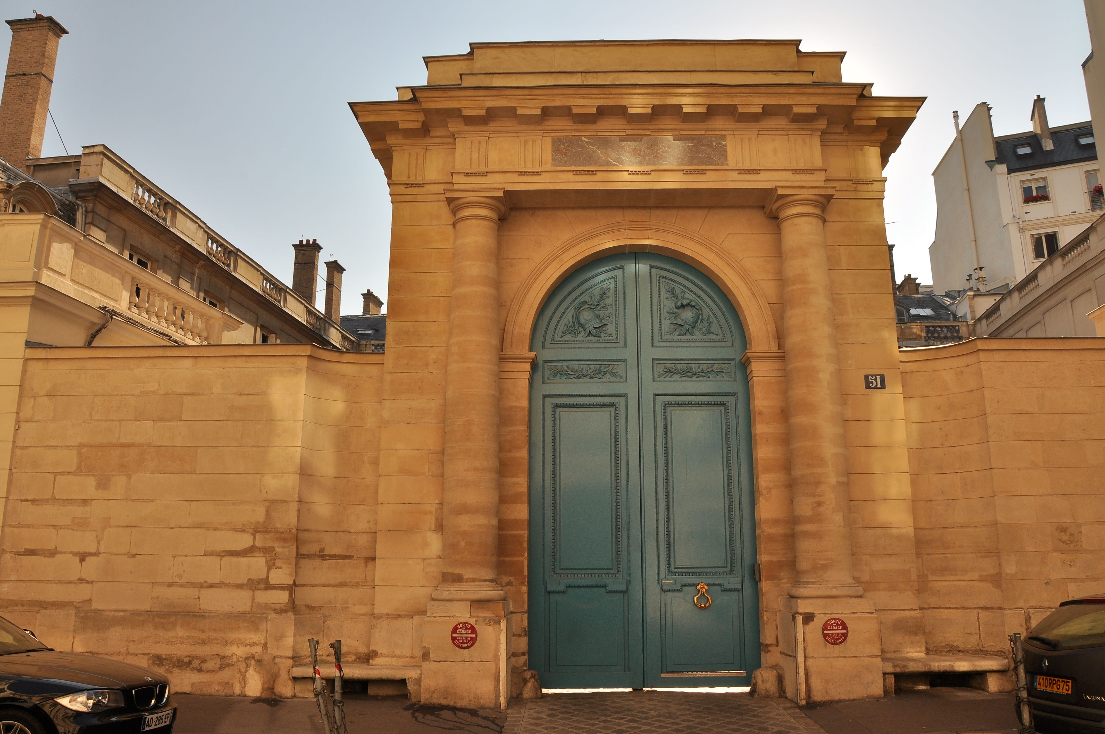 Hôtel de Soyecourt or Pozzo di Borgo situated at 51 rue de l'Université at Paris 7th district